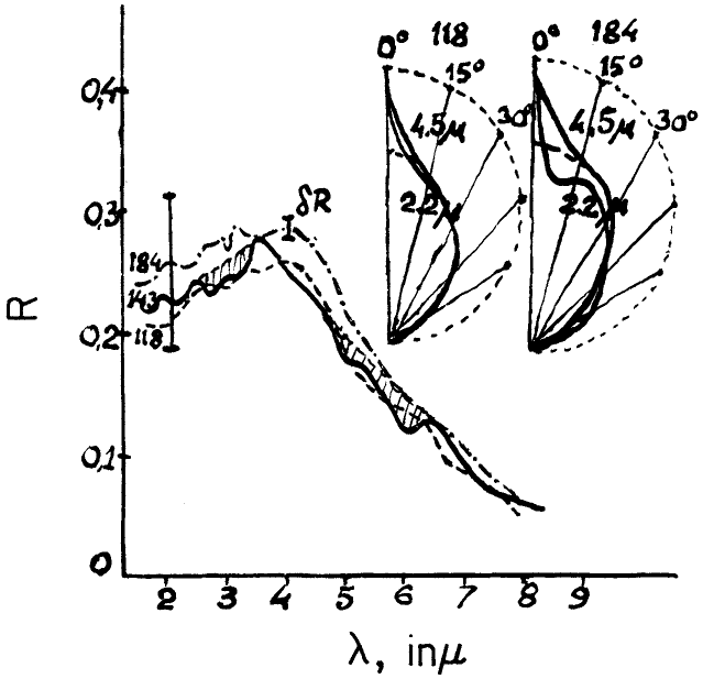 Diffuse reflection and scattering of lunar soil samples recovered by the 1976 soviet probe Luna 24 showing minima near 3, 5 and 6um, absorption bands for the valence bands and vibrations of a water molecule.